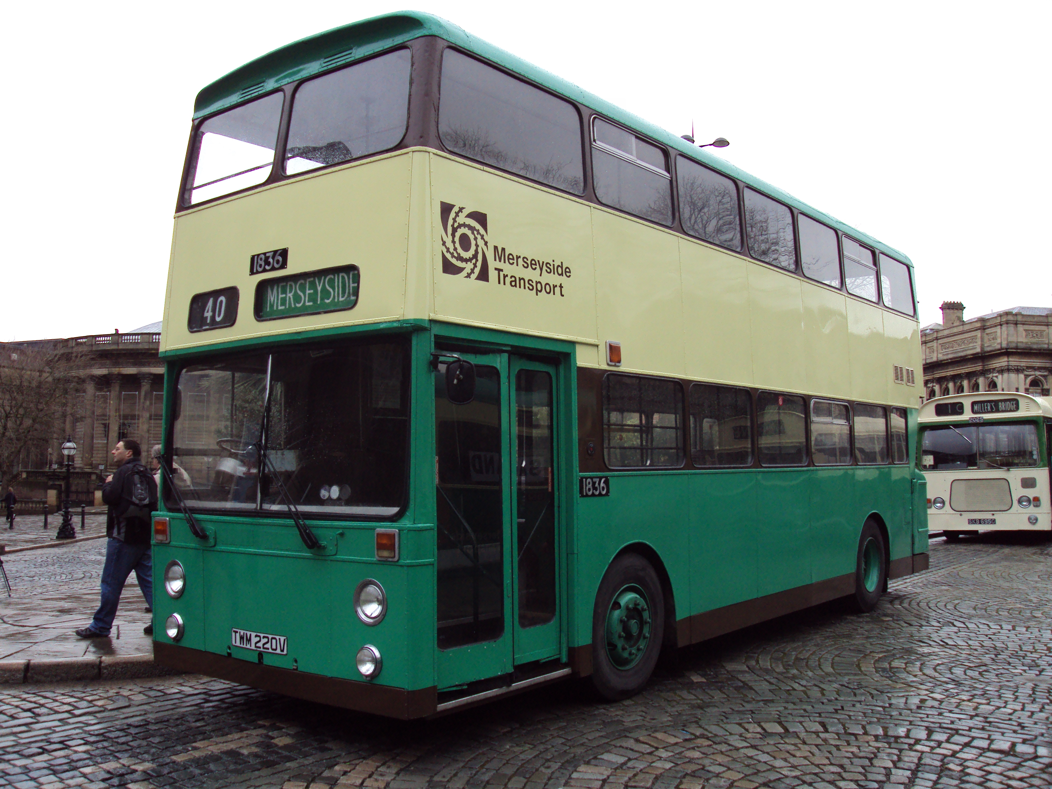 Photo taken at the Merseyside Passenger Transport Executive 40th anniversary event at St Georges Plateau, Liverpool.